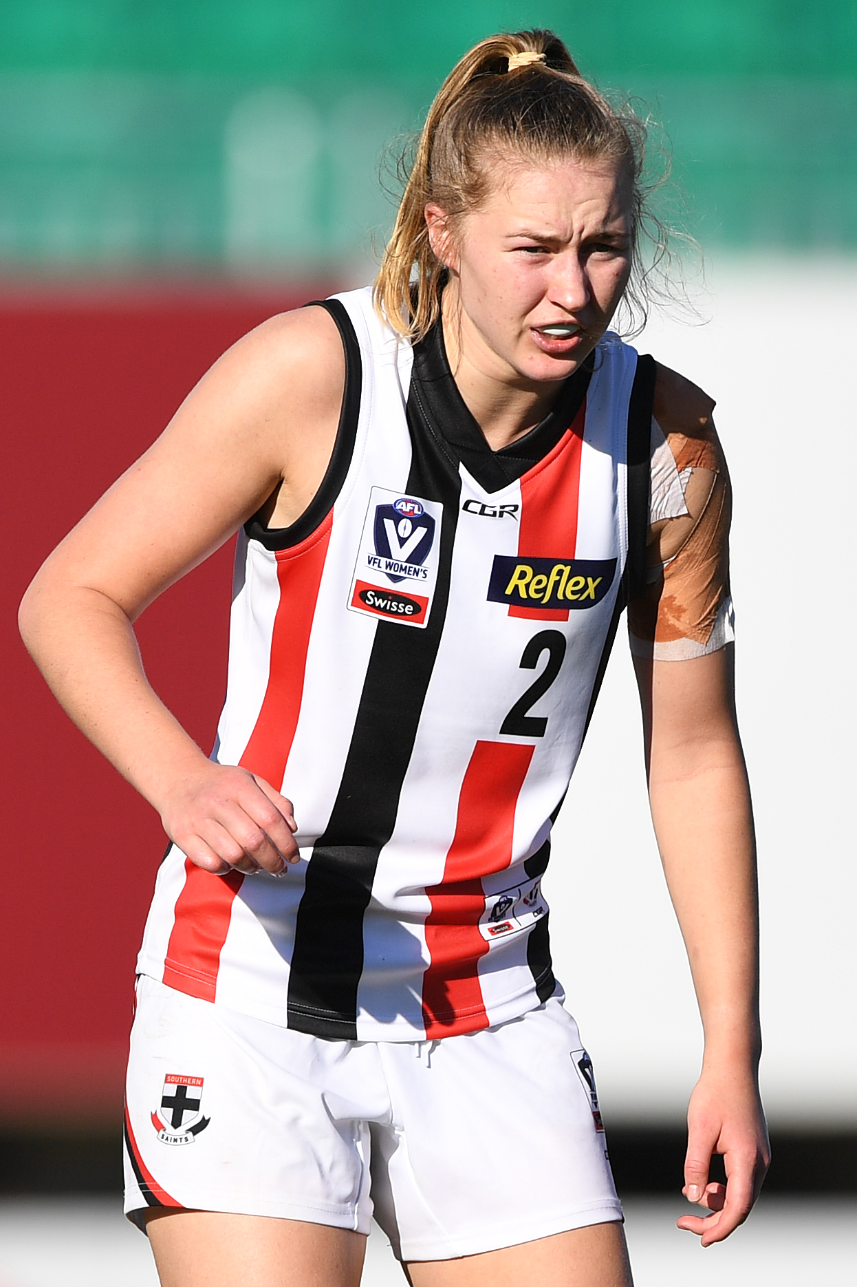 Alison Brown of the Southern Saints during the 2019 VFLW round 2 match between NT Thunder and the Southern Saints at TIO Stadium on Saturday, 18 May 2019 in Darwin, Northern Territory.